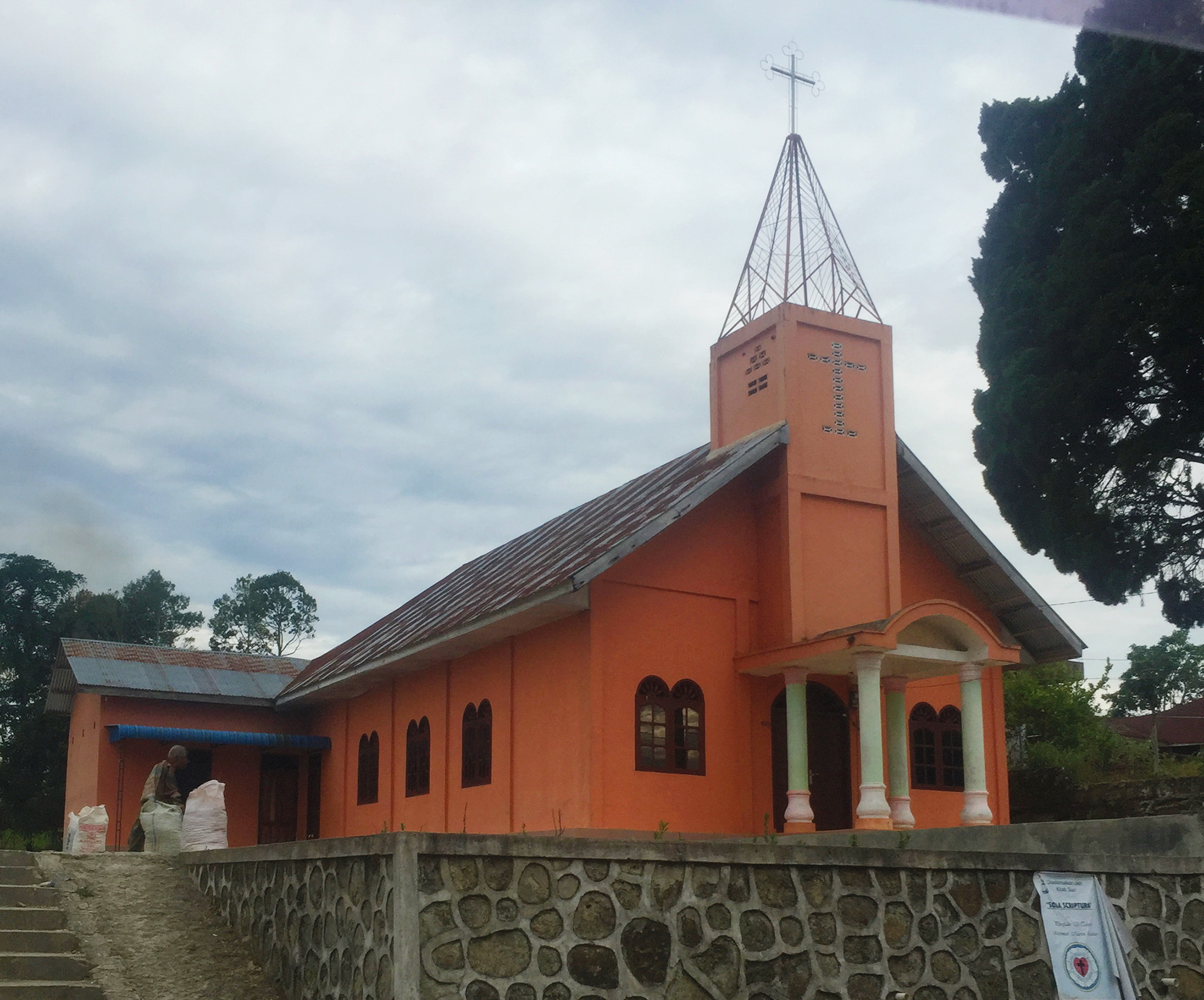 HKBP Partuahan, church in Partuahan, Dolog Masagal, Simalungun